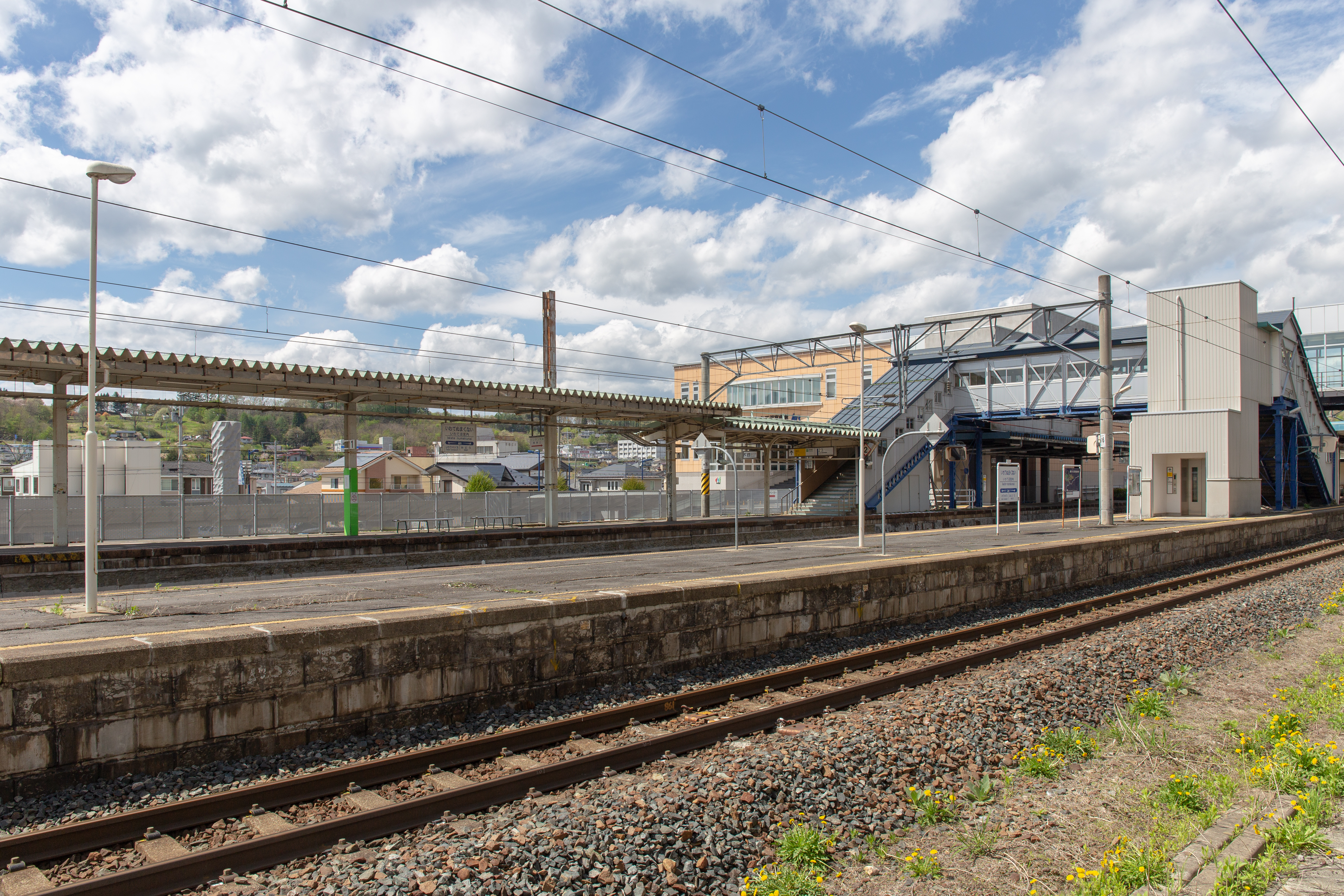 Platforms of IGR Iwate Galaxy Railway Iwate-Numakunai Station